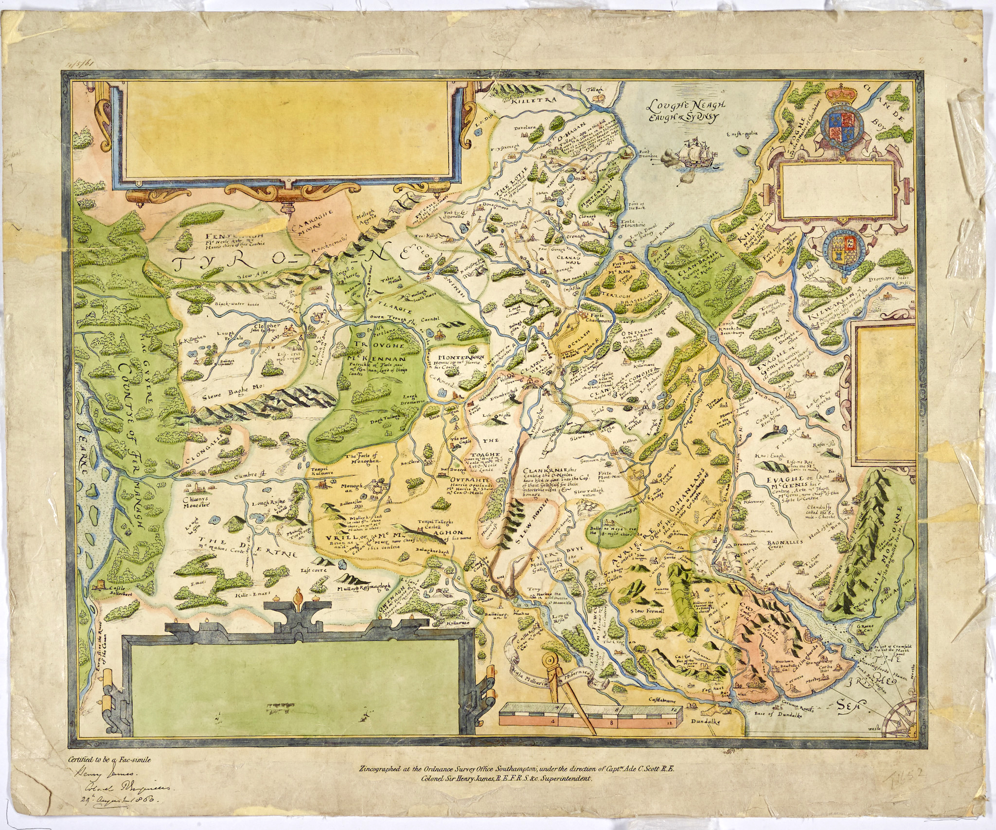 17th Century Barony Maps c.1609 - Tyrone etc. (From collection of maps of escheated counties of Ireland) PRONI Ref: T1652/2